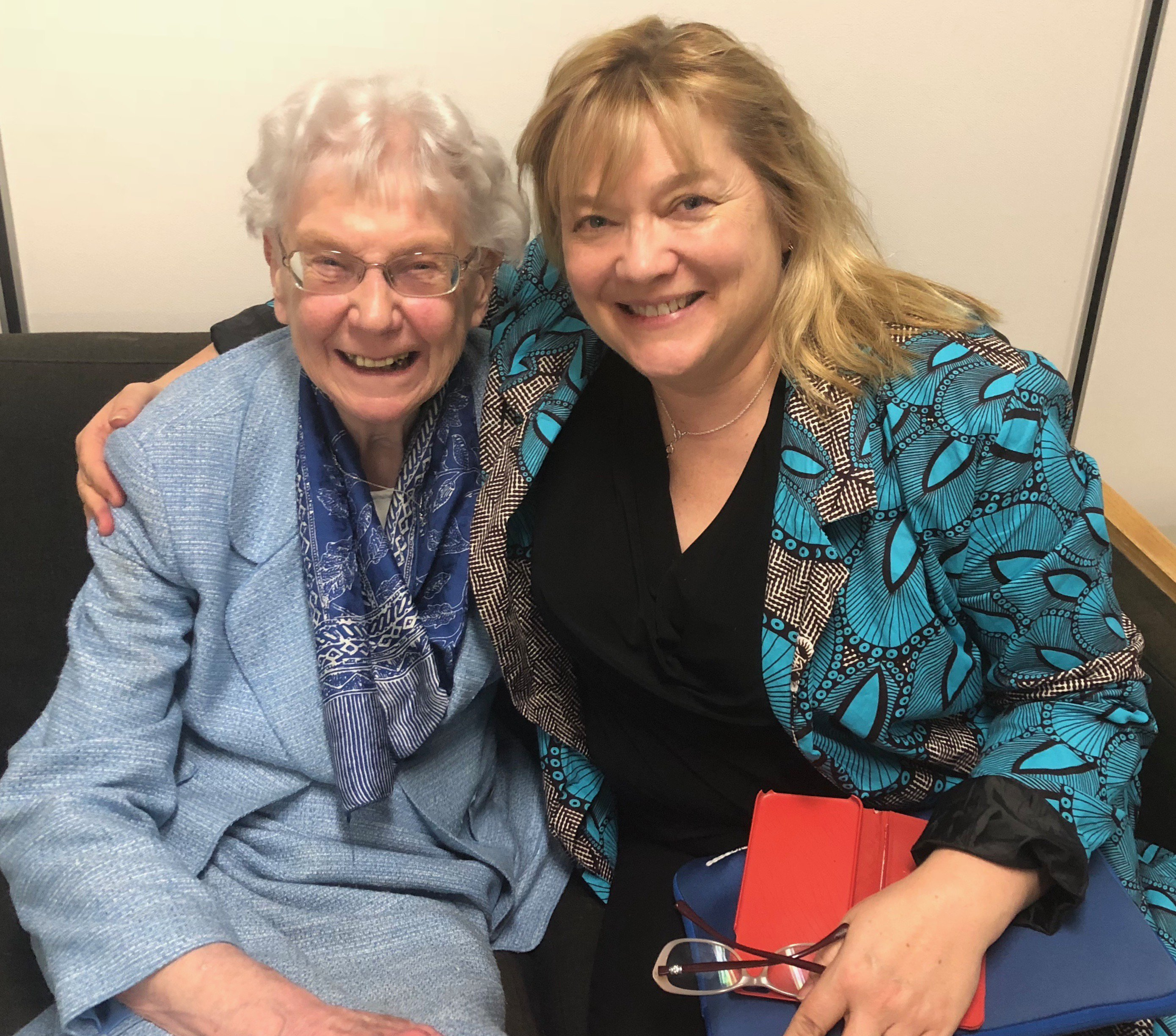 Margaret-Ann Armour [scientist and founder of Women in Scholarship, Engineering, Science and Technology (WISEST) program] and Imogen Coe (scientist and leading EDI advocate).